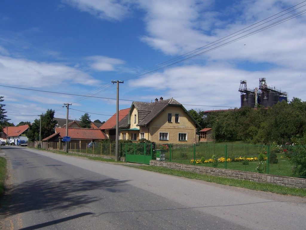 Všestary